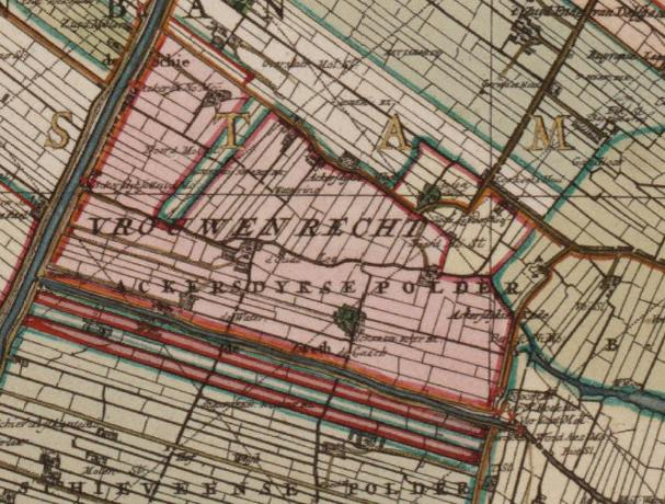 Akkerdijksche polder, South Holland, The Netherlands.